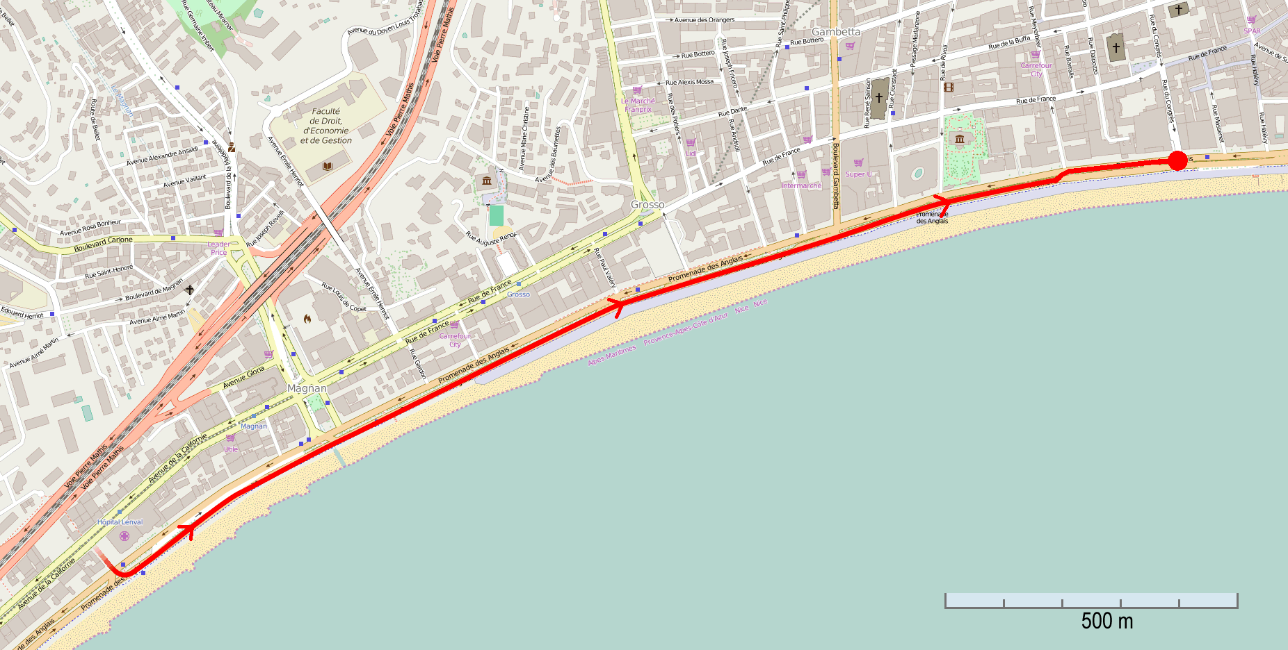 Map of the 14 July 2016 Nice attack. Promenade des Anglais marked at spot of attack.